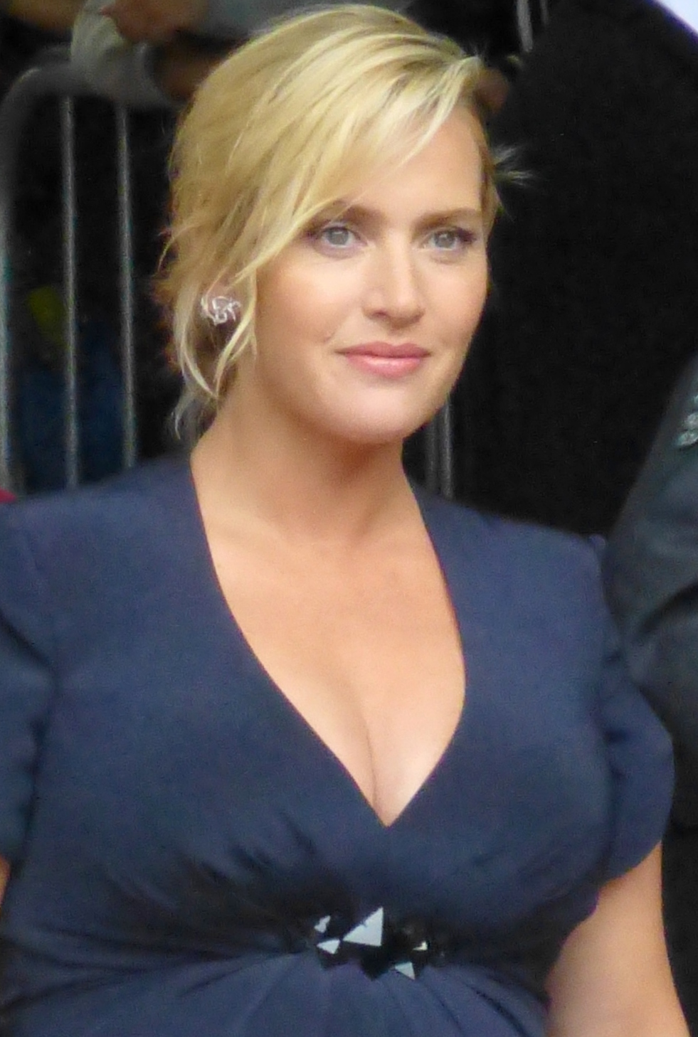 Kate Winslet at the premiere of Labor Day, Toronto Film Festival 2013